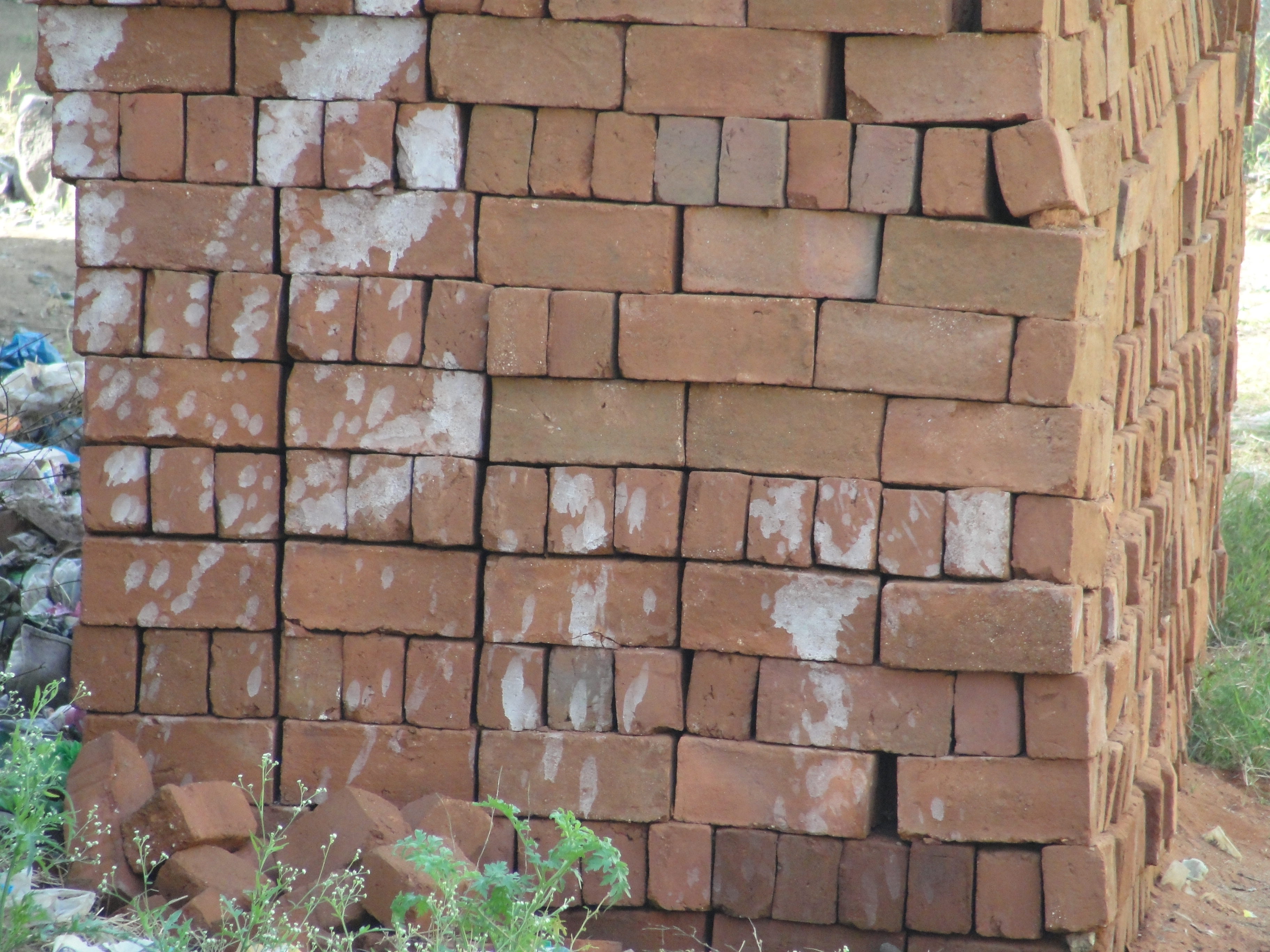 A brick array